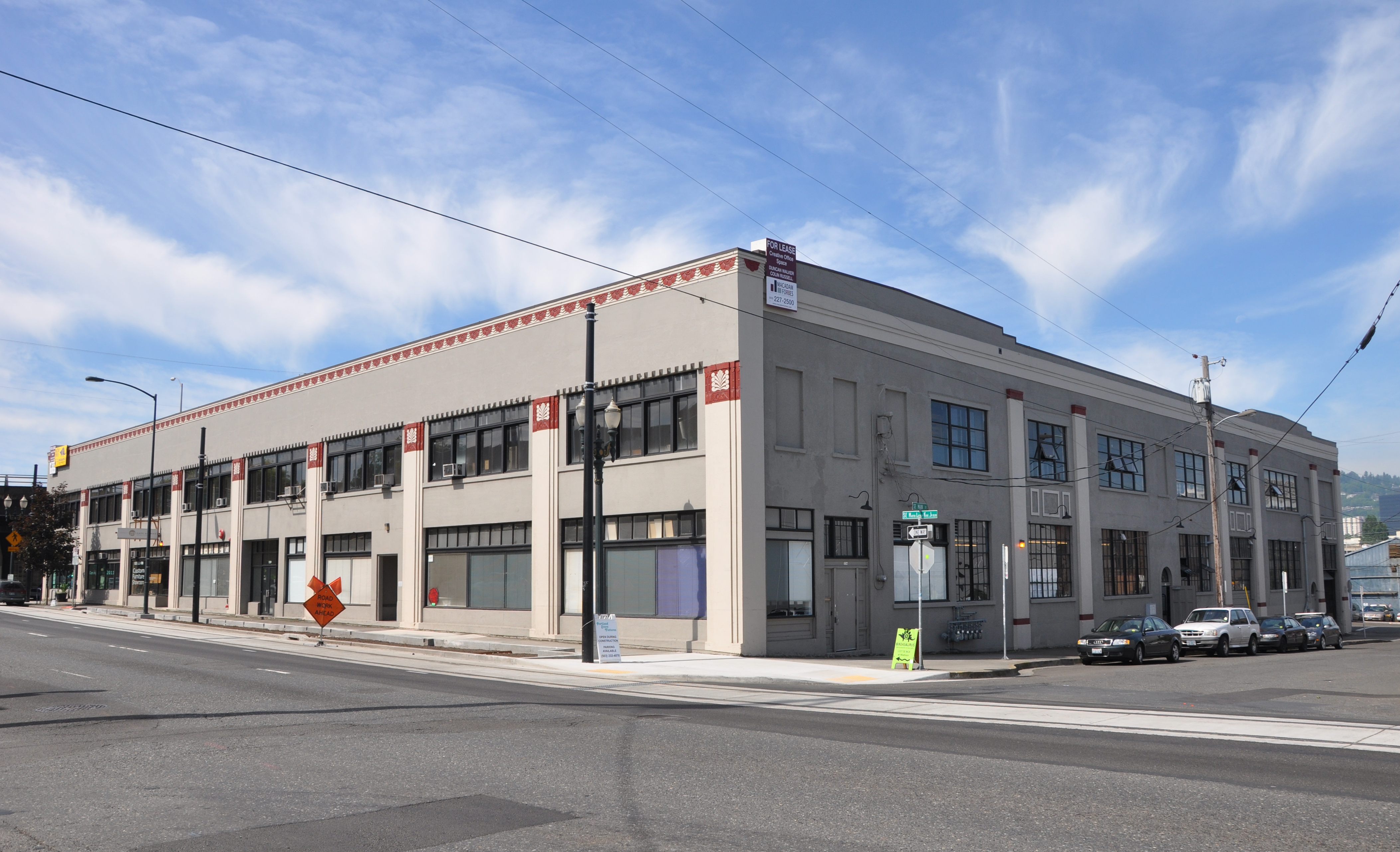 Italian Gardeners and Ranchers Association Market Building in Portland in the U.S. state of Oregon. The structure is listed on the National Register of Historic Places.